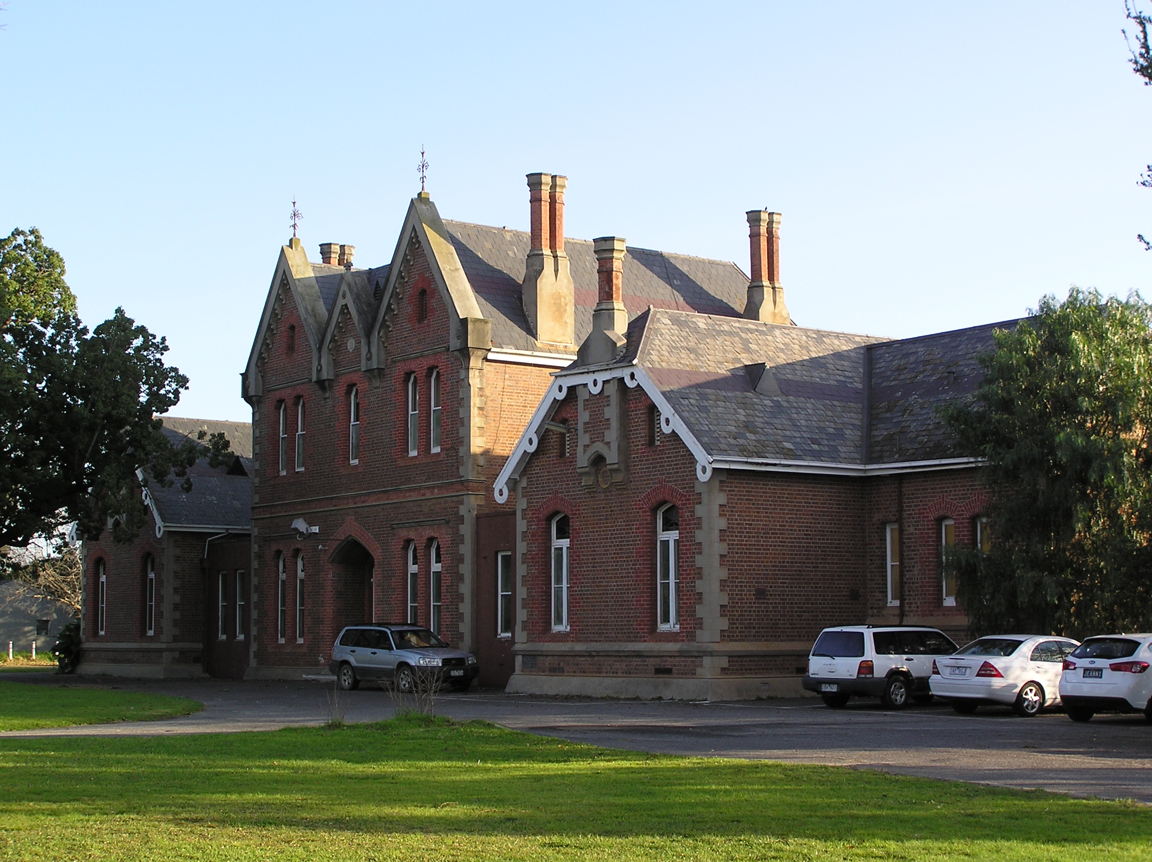 Old Bairnsdale Hospital on the corner of McKean and Ross Streets West Bairnsdale. The Builder was Mr William Yates. Frederick William Drevermann who was the shire President at the time, laid the foundation stone on 15 December 1886.